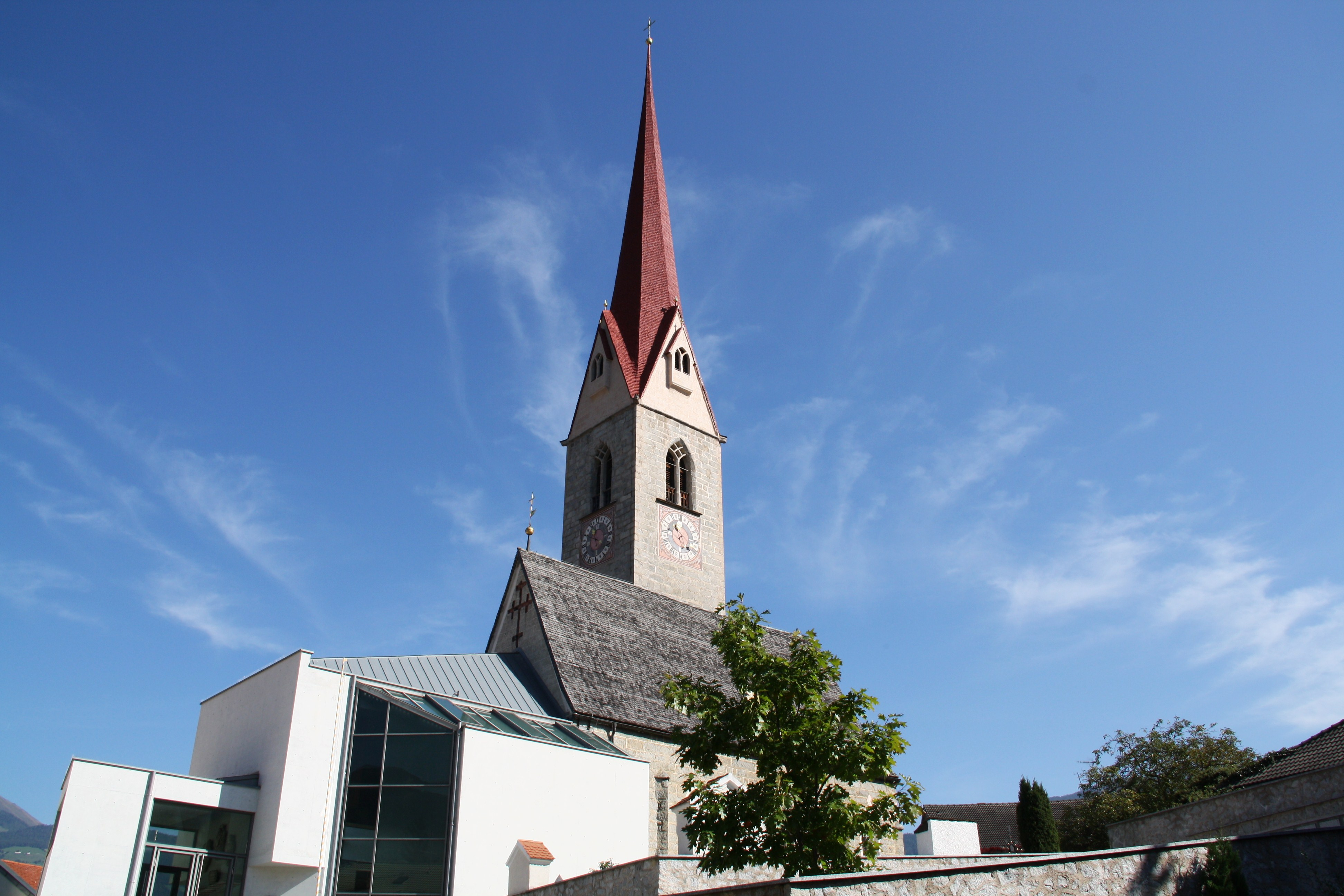 Italy, South Tirol, Natz-Schabs, Peter Kemenater straße, Pfarrkirche Hl. Margareth. The Late Gothic parish church was consecrated in 1281 but the construction was completed only in 1454 and in the late 18th century the interior was restored in baroque. The side chapel was built in 1681 and contains interesting paintings. In the recent years the church was enlarged extending the nave with a prominent portal. The slim bell tower is 72 m. high.